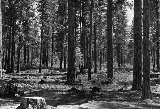 Photo shows results of selective cutting of ponderosa pine in Oregon forest